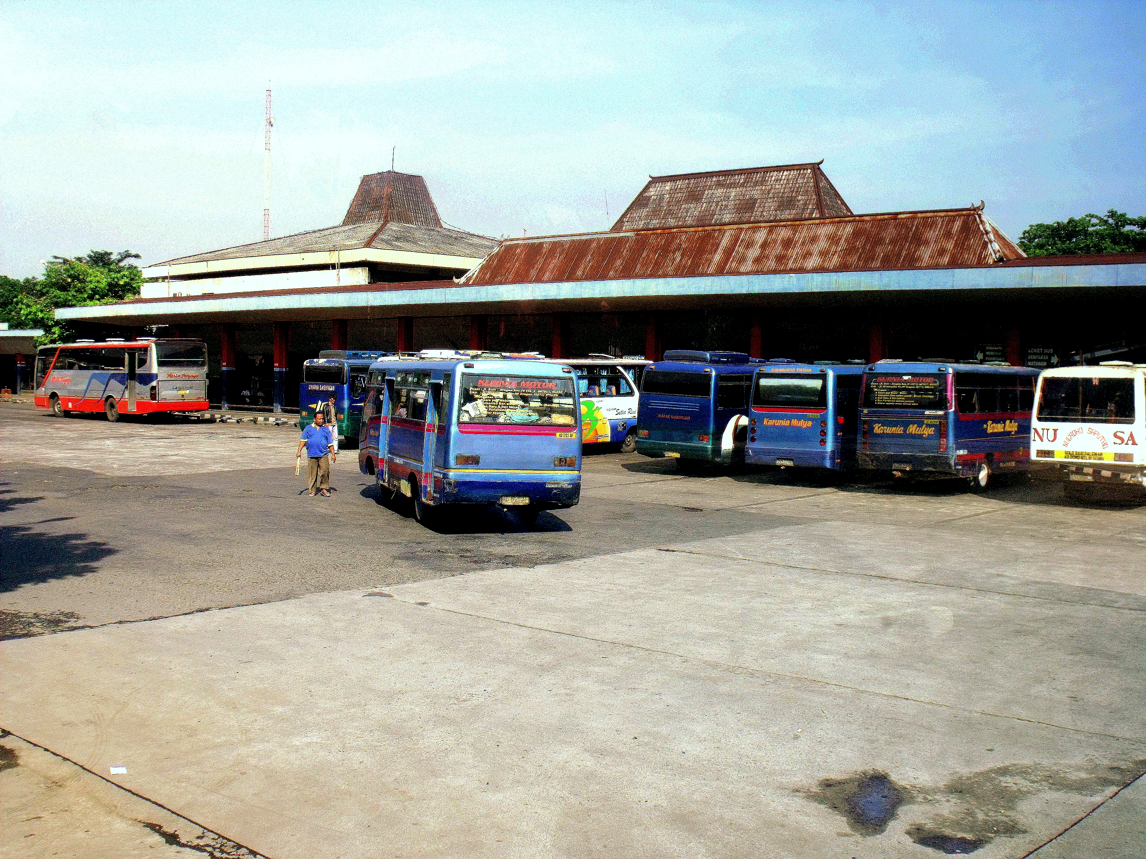 Solo city bus station central java indonesia